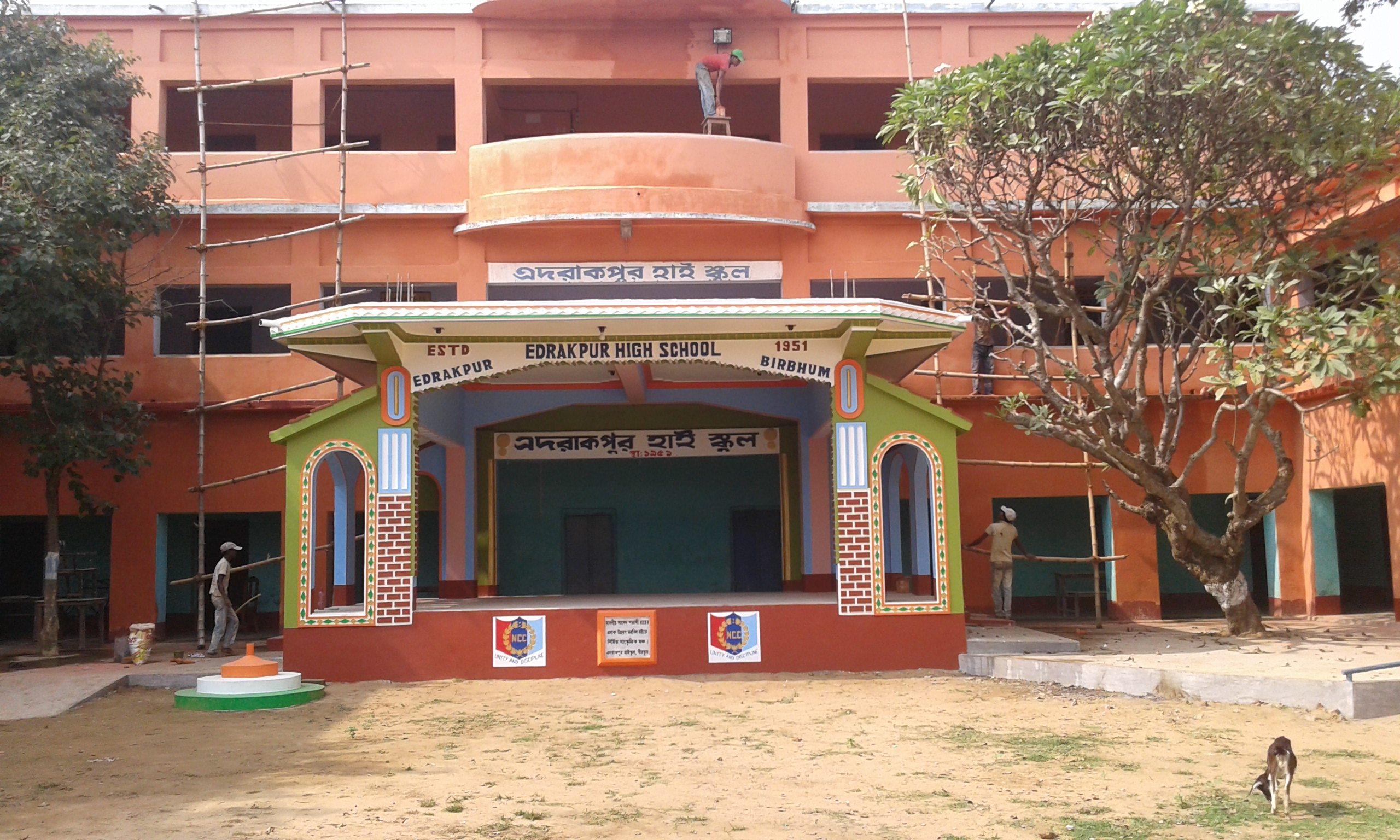 THIS IS A EDRAKPUR HIGH SCHOOL